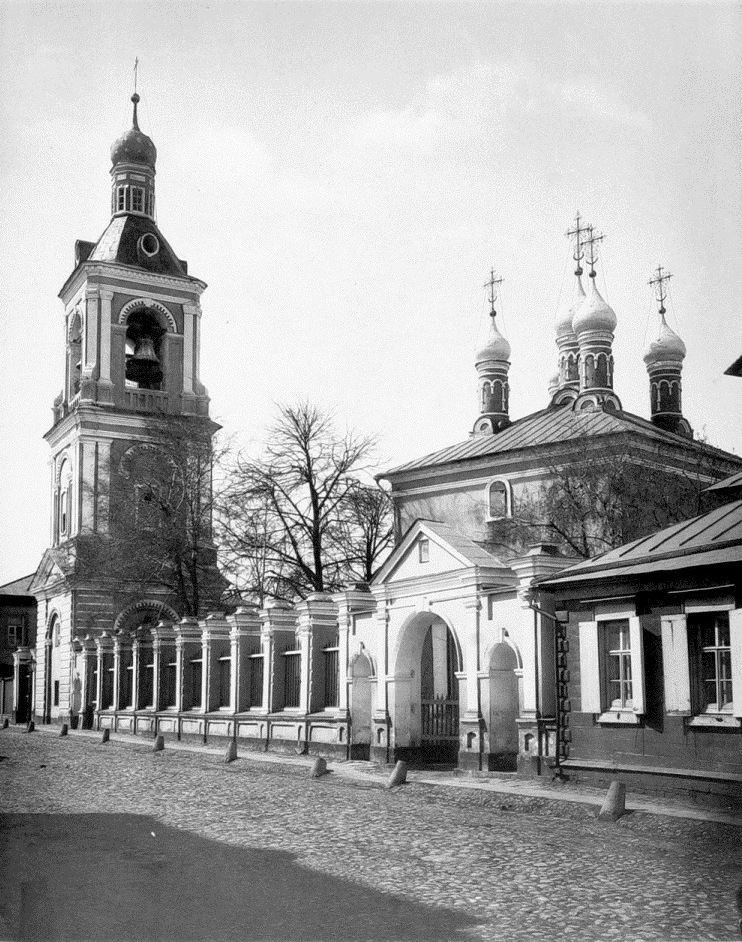 Church of St Nicholas in Golutvin, Moscow.